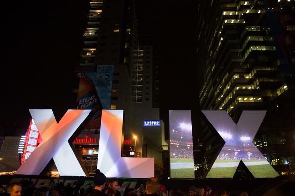 1/29/2015 - Superbowl Central